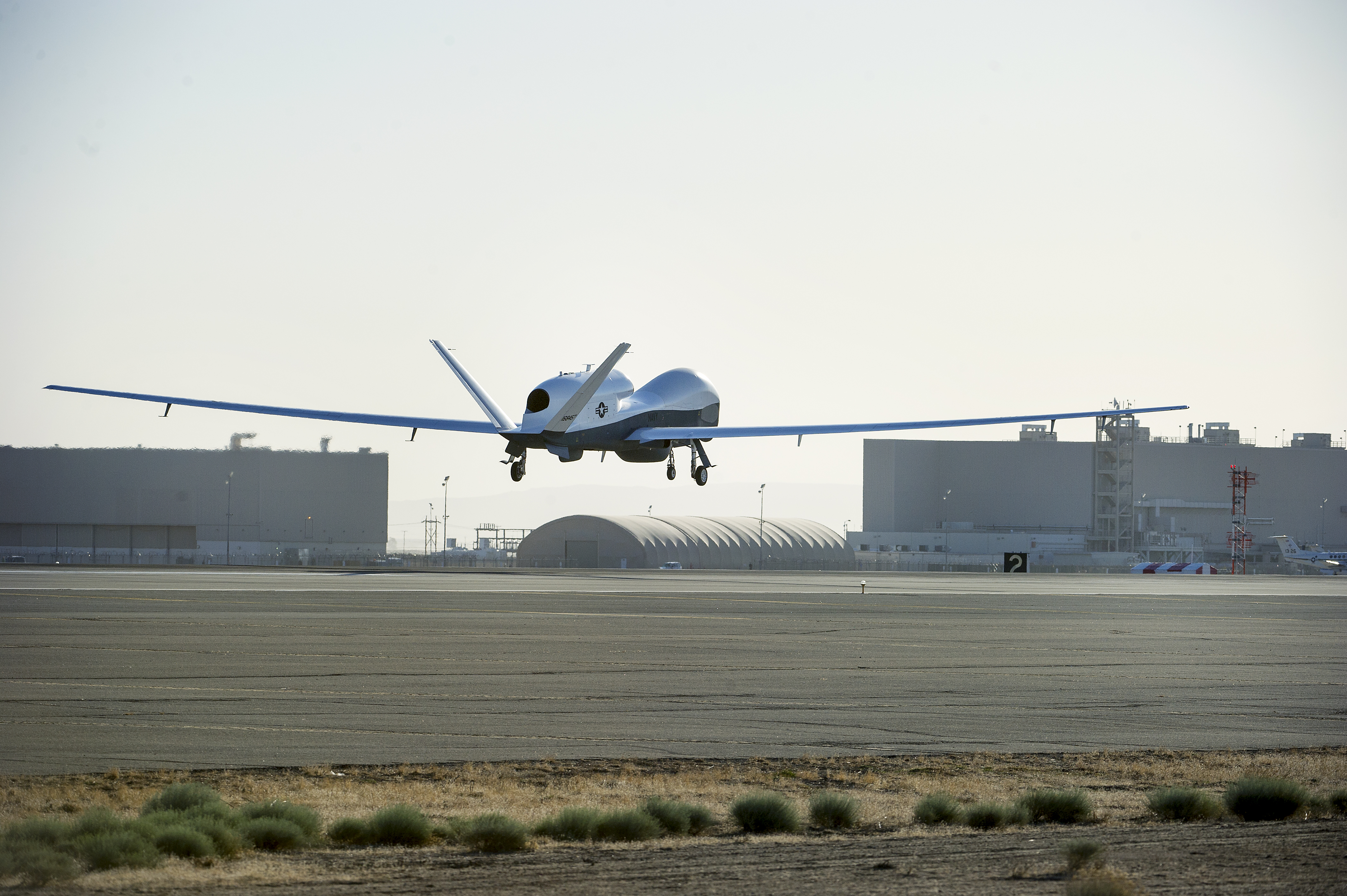 The Triton unmanned aircraft system completes its first flight May 22, 2013 from the Northrop Grumman manufacturing facility in Palmdale, Calif. The 80-minute flight successfully demonstrated control systems that allow Triton to operate autonomously. Triton is designed to fly surveillance missions up to 24-hours at altitudes of more than 10 miles, allowing coverage out to 2,000 nautical miles. The system's advanced suite of sensors can detect and automatically classify different types of ships. (U.S. Navy photo courtesy of Northrop Grumman by Daniel Perales/Released) 130522-O-ZZ999-116